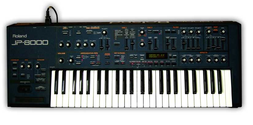 Photo of Roland JP-8000.